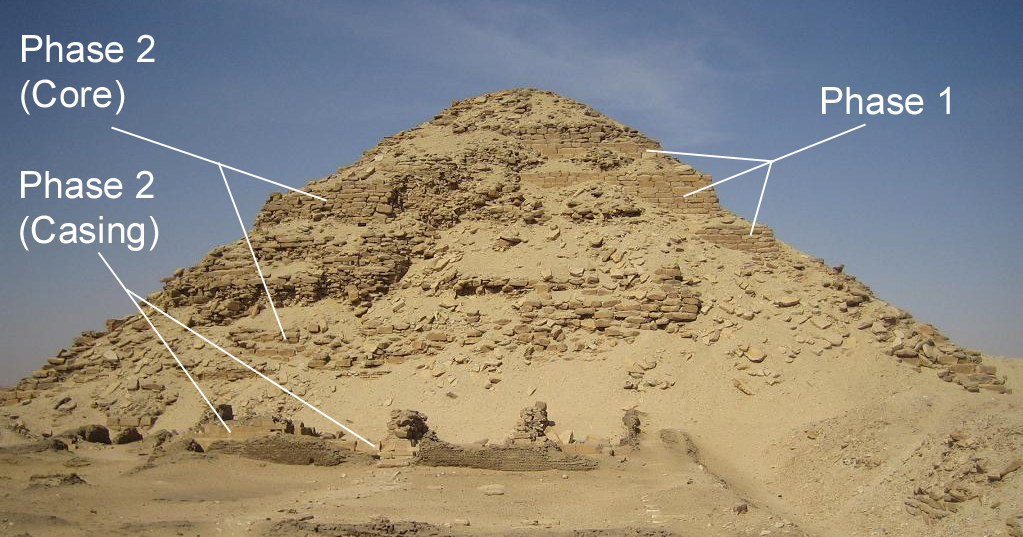 Building phases of the Neferirkare pyramid are visible in this photograph